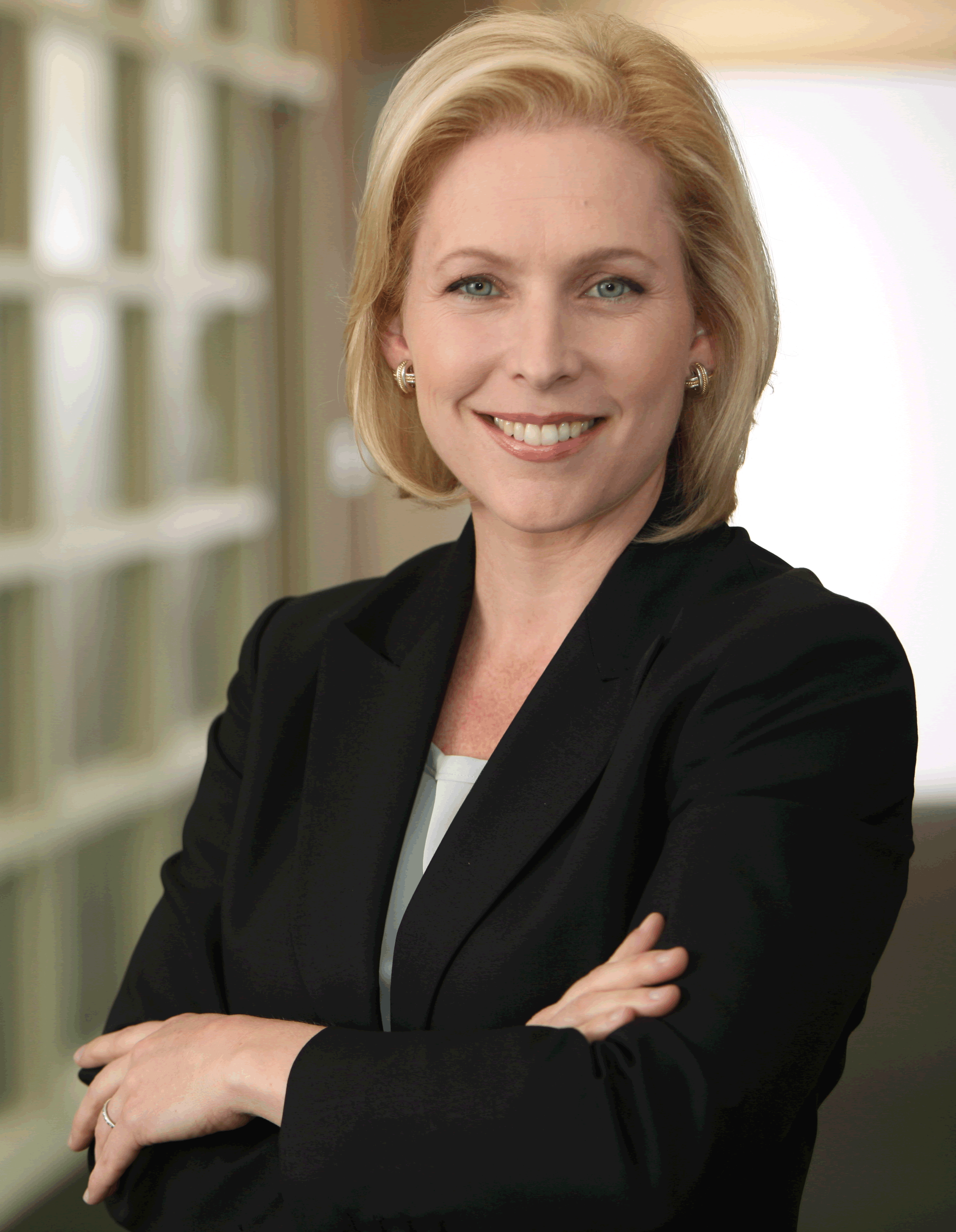 United States Senator Kirsten Gillibrand